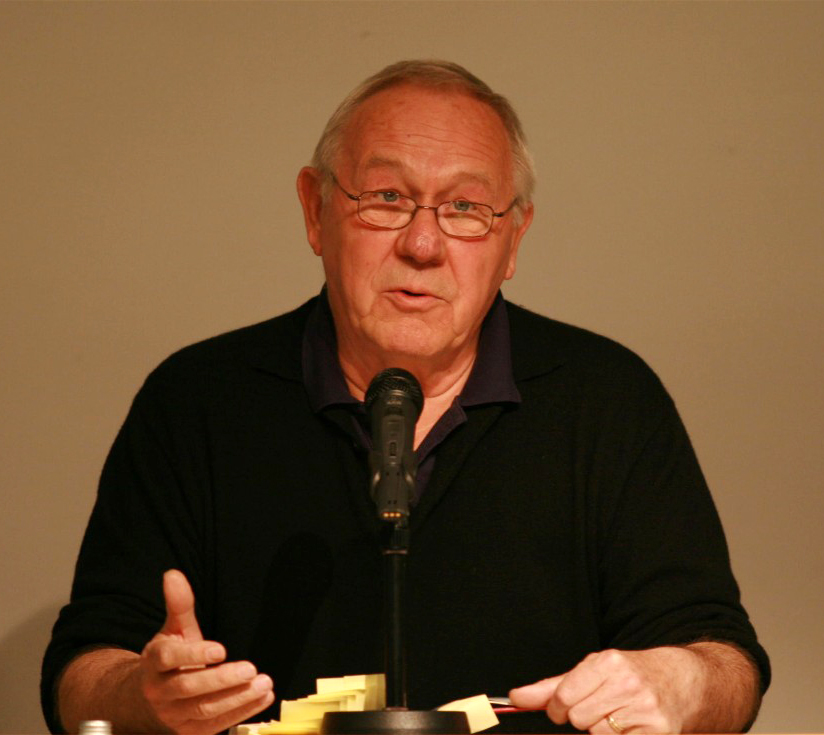 Armin Maiwald giving a lecture at the Catholic Landvolkshochschule Freckenhorst, 2008